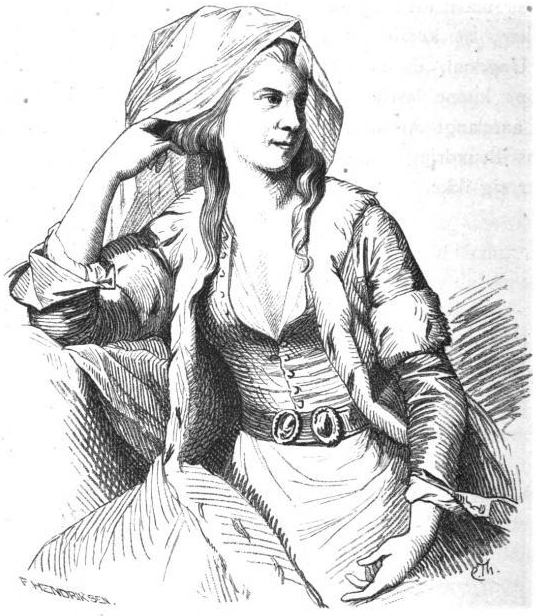 Danish actress Marie Cathrine Preisler (1761-1797) as a sultane.